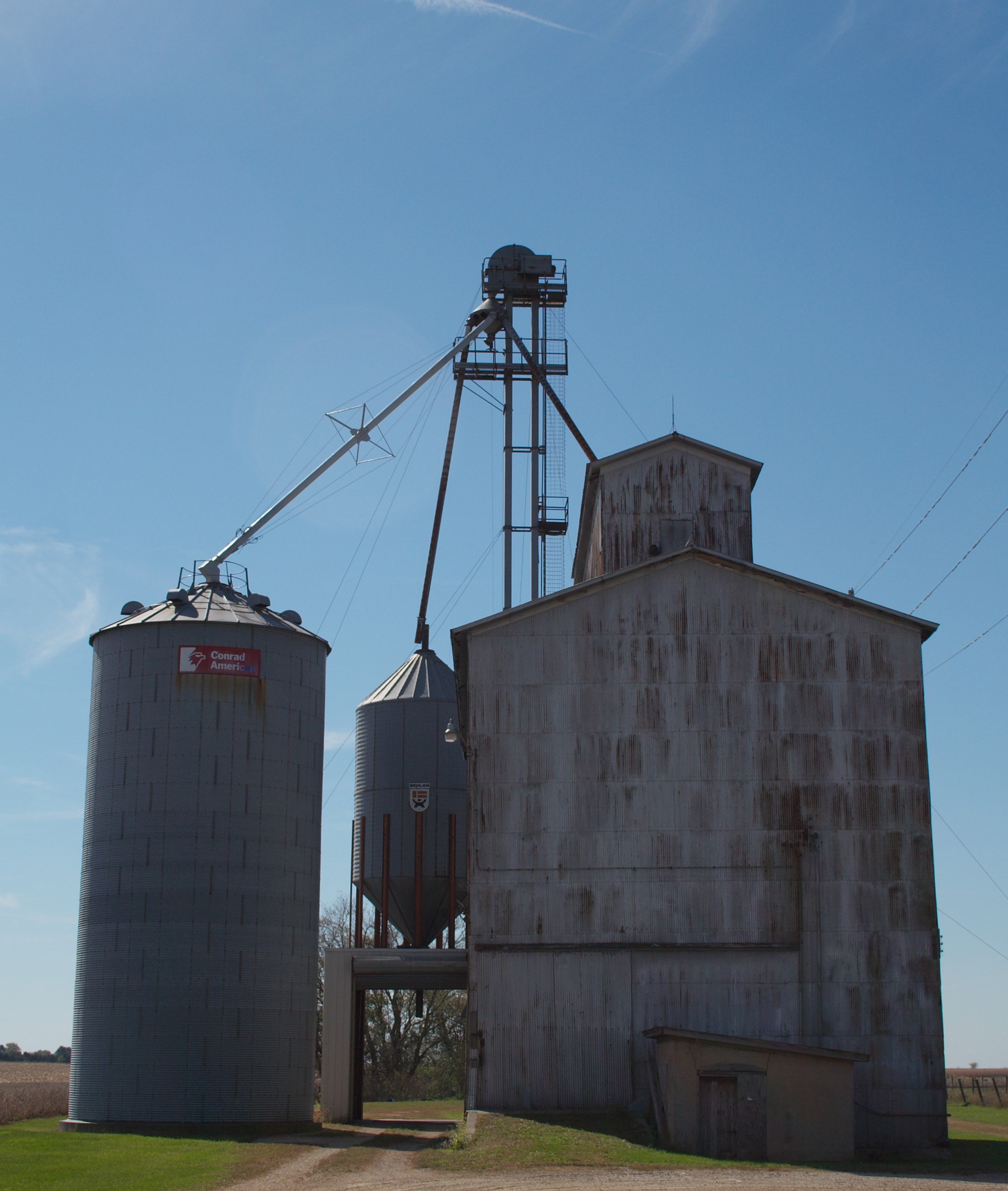 Various shots in a rural part of Illinois